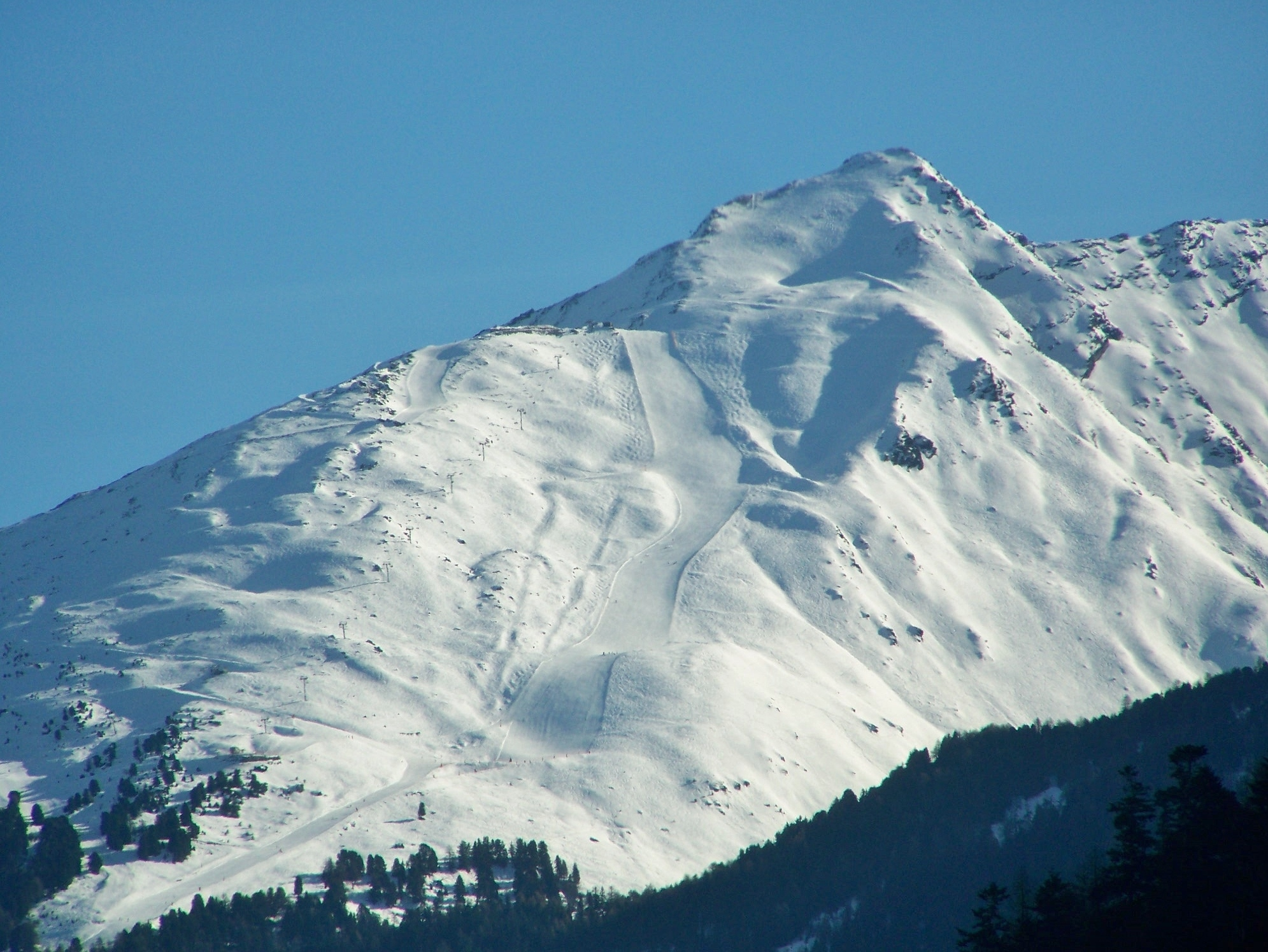 Sight from the bottom of the Maurienne valley, of La Norma mount (2 917 meters high) and ski tracks and cableways of La Norma ski resort, in Savoie, France.